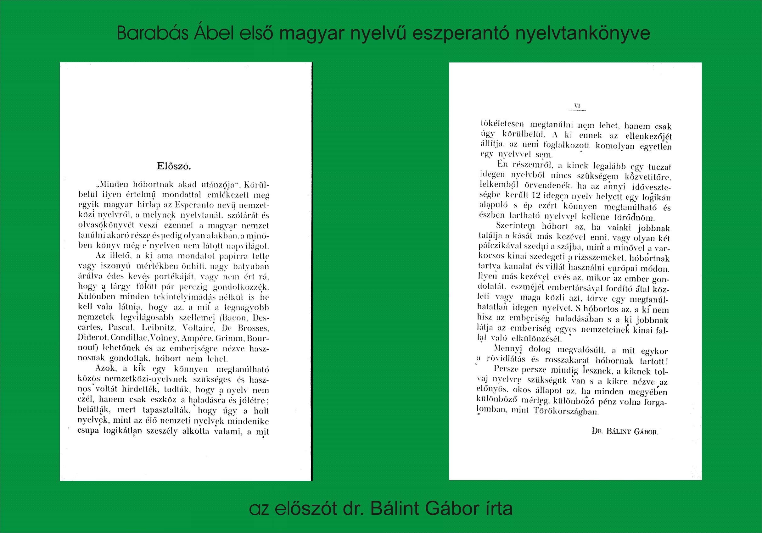 Foreword_of_Esperanto_grammar_book from Gábor Bálint